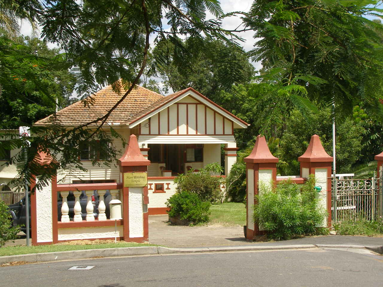 Glenrae, 75 Bank Road, Graceville, Brisbane, Queensland, Australia - built by Walter Taylor